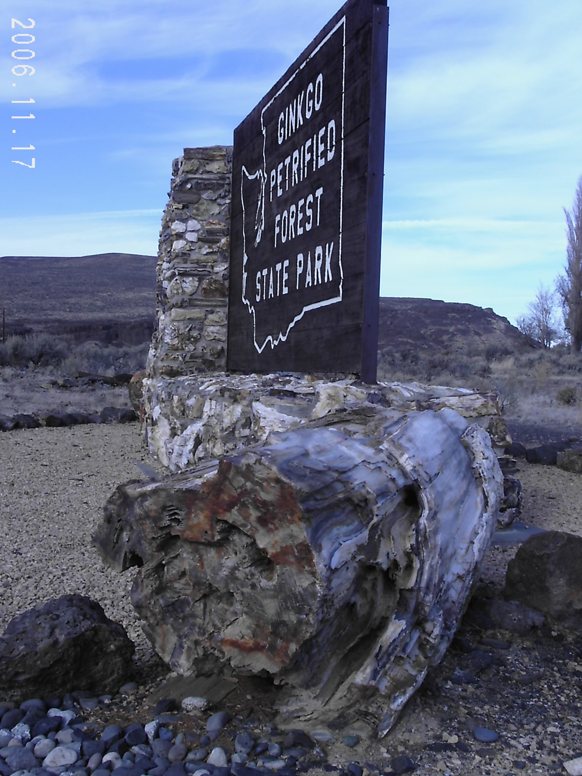 Description: Entrance to Ginkgo/Wanapum State Park, Washington State, USA; shows entrance sign and large chunk of petrified wood. Source: own work Date of Creation: November 17, 2006 Author: Randy Winn (myself)